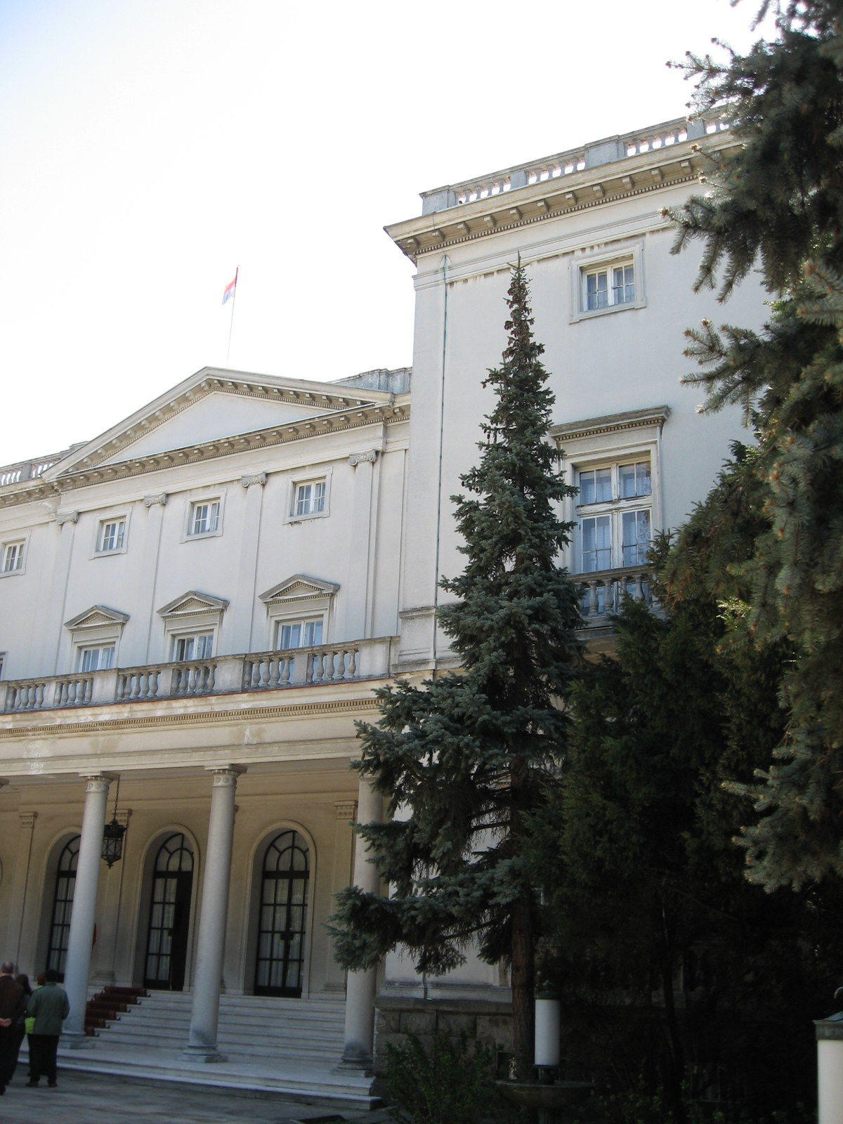 Beli dvor, Belgrade